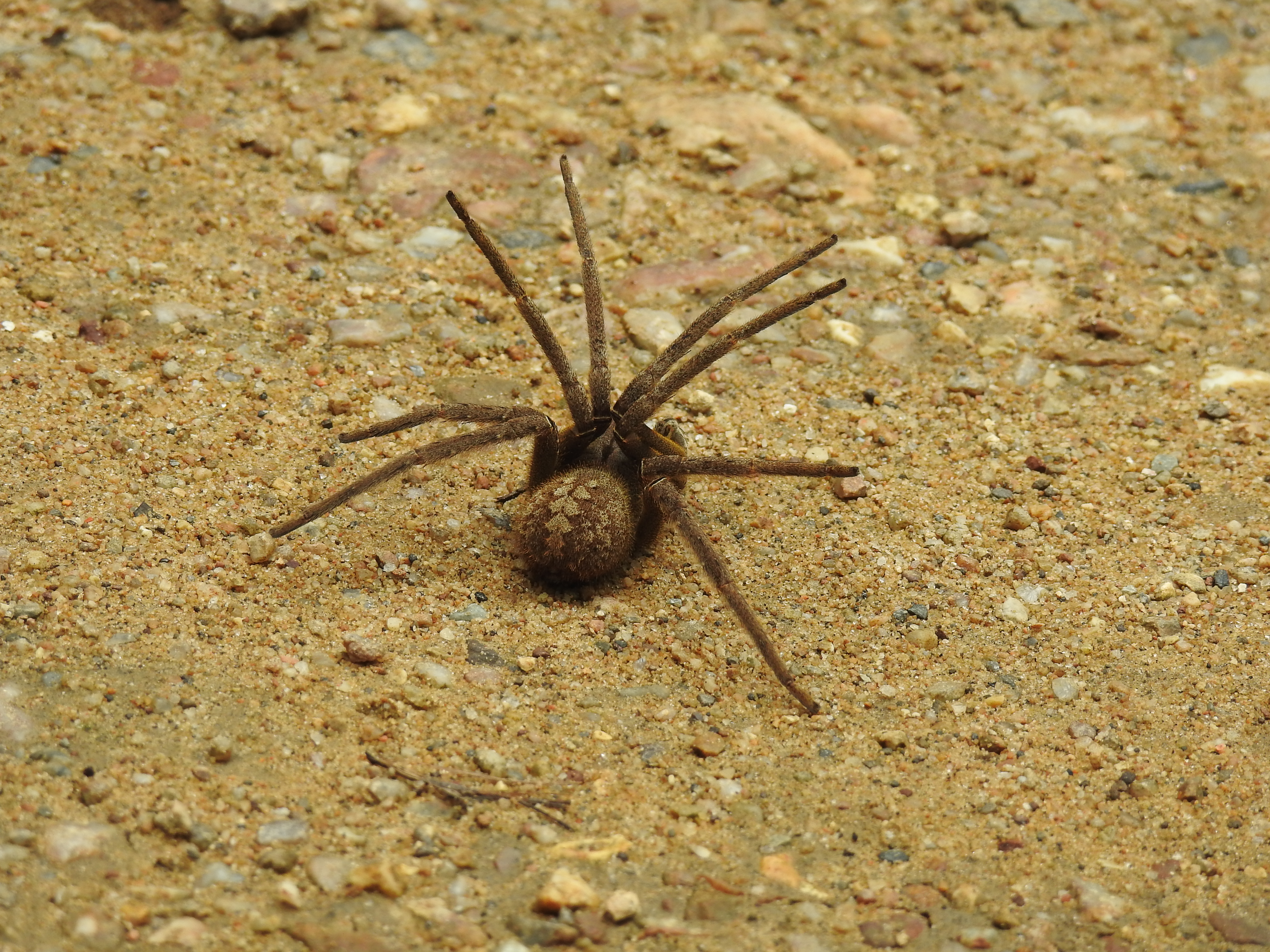 Pictures taken during the PETAR Expedition, a WMF granted event. Read more here. The Alto Ribeira Tourist State Park (Portuguese: Parque Estadual Turístico do Alto Ribeira, PETAR) is a state park is the state of São Paulo, Brazil. It protects a mountainous area of Atlantic Forest. It is known for its many caves.